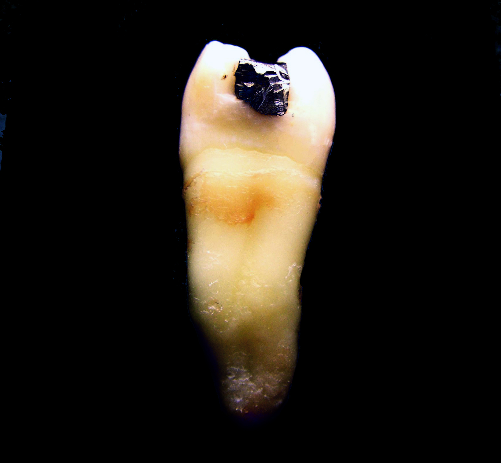 This is a tooth showing a restored premolar